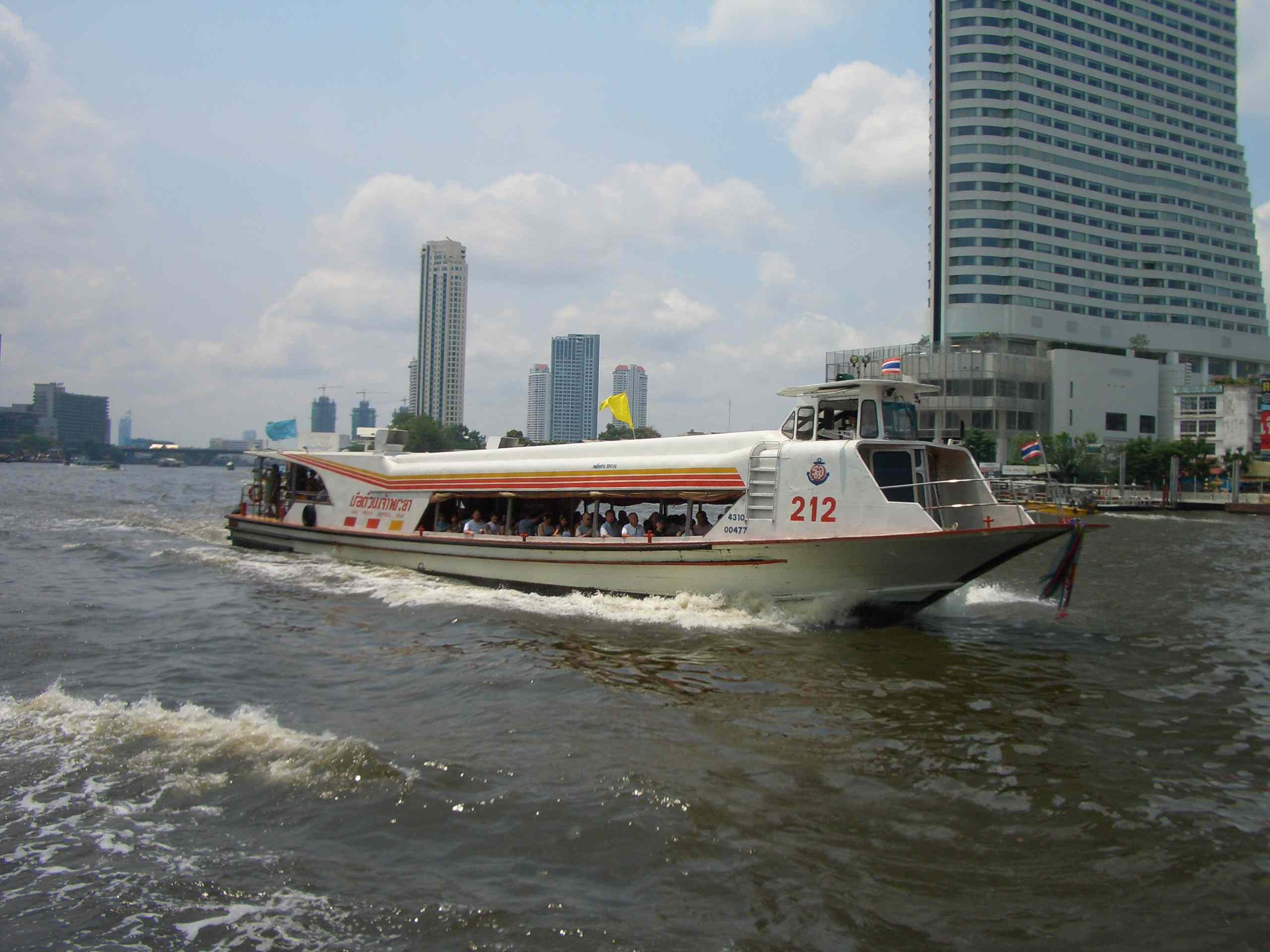 Express Boat on the Chao Praya, Bangkok Express Line (see the yellow flag!) photo taken by Philipp Schäufele.